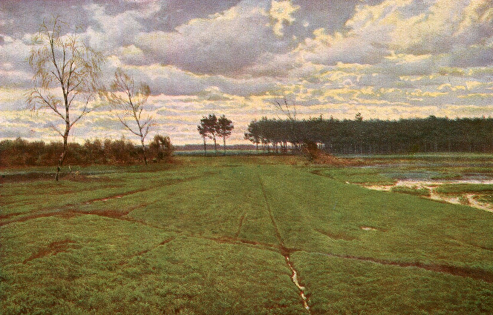 Winter crop in fields